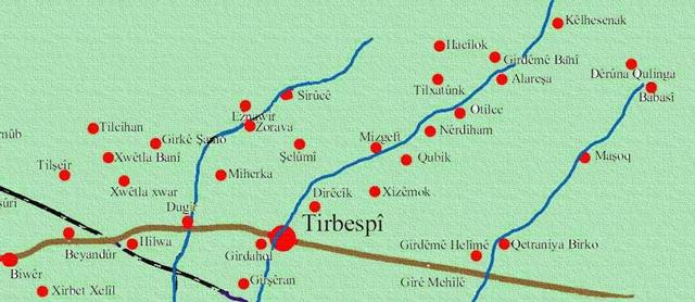 البلده والقرى المحيطه بها